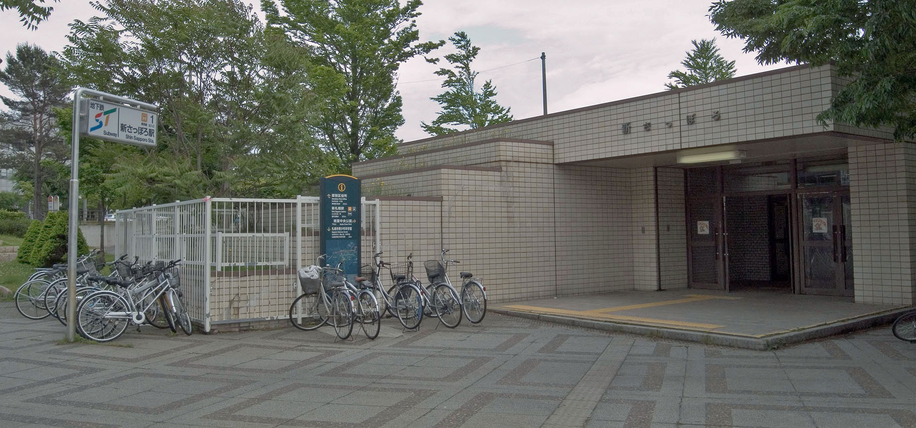 Sapporo subway Shin Sapporo station, Hokkaido, Japan